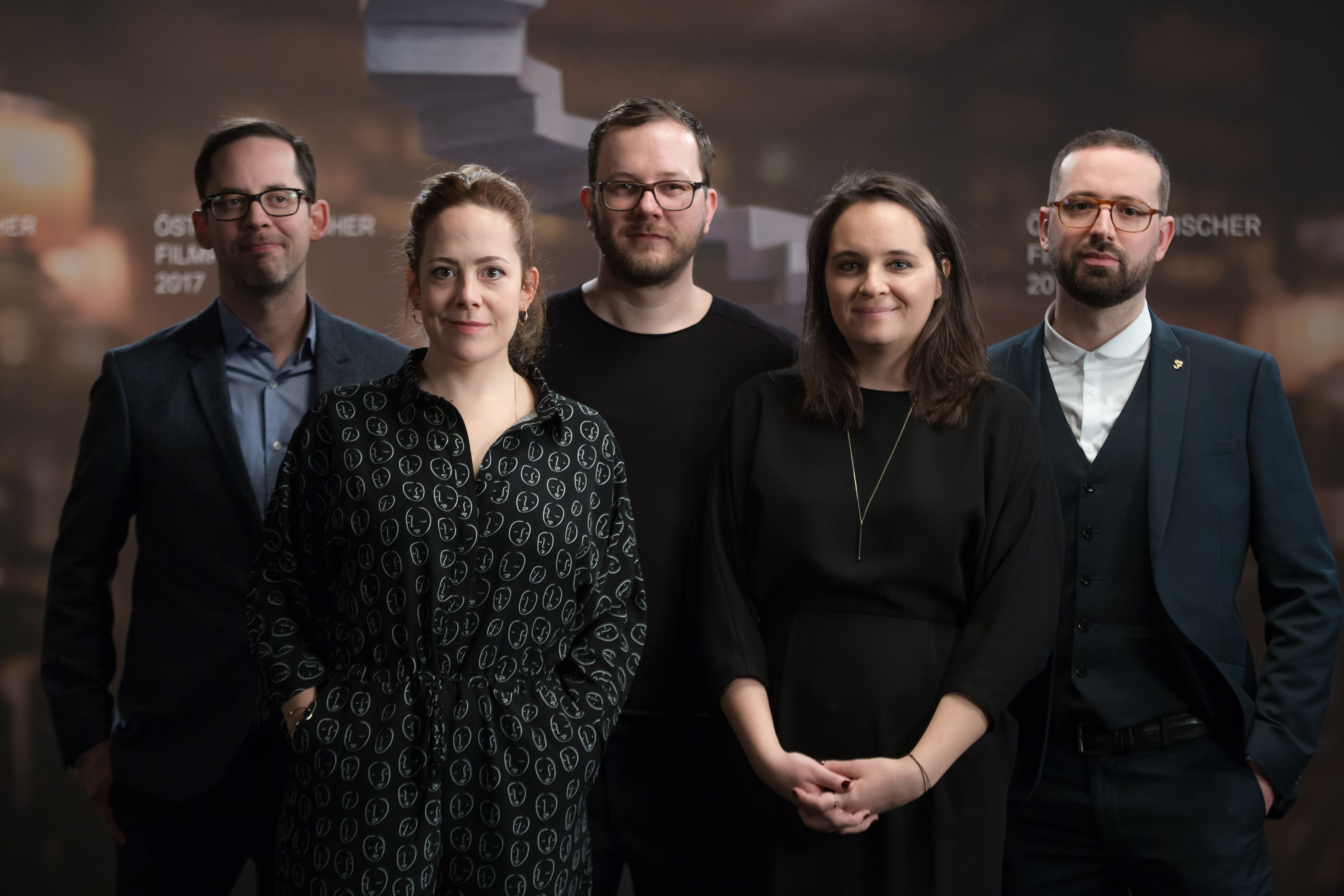 The producers of Holz Erde Fleisch, ltr.: Michael Schindegger (also cinematography), Katharina Mückstein, Sigmund Steiner (also director, writer and editor), Natalie Schwager and Flavio Marchetti at the Austrian Film Awards 2017 (Rathaus, Vienna,Austria).